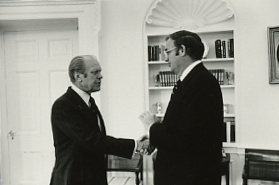 The photo contact sheet, identified as A9158 by the White House Photographic Office (WHPO), is housed at the Gerald R. Ford Presidential Library, a branch of the National Archives and Records Administration (NARA). This file is a 200 dpi photo contact sheet having images from roll of film A9158 of the August 9, 1974 - January 20, 1977 Gerald R. Ford White House Photographic Office Series A0001-A9999 and B0001-B2886 photographs. The date on the photo contact sheet is the date the roll of film was processed, not necessarily the date the photographs were taken. See table below for additional details.